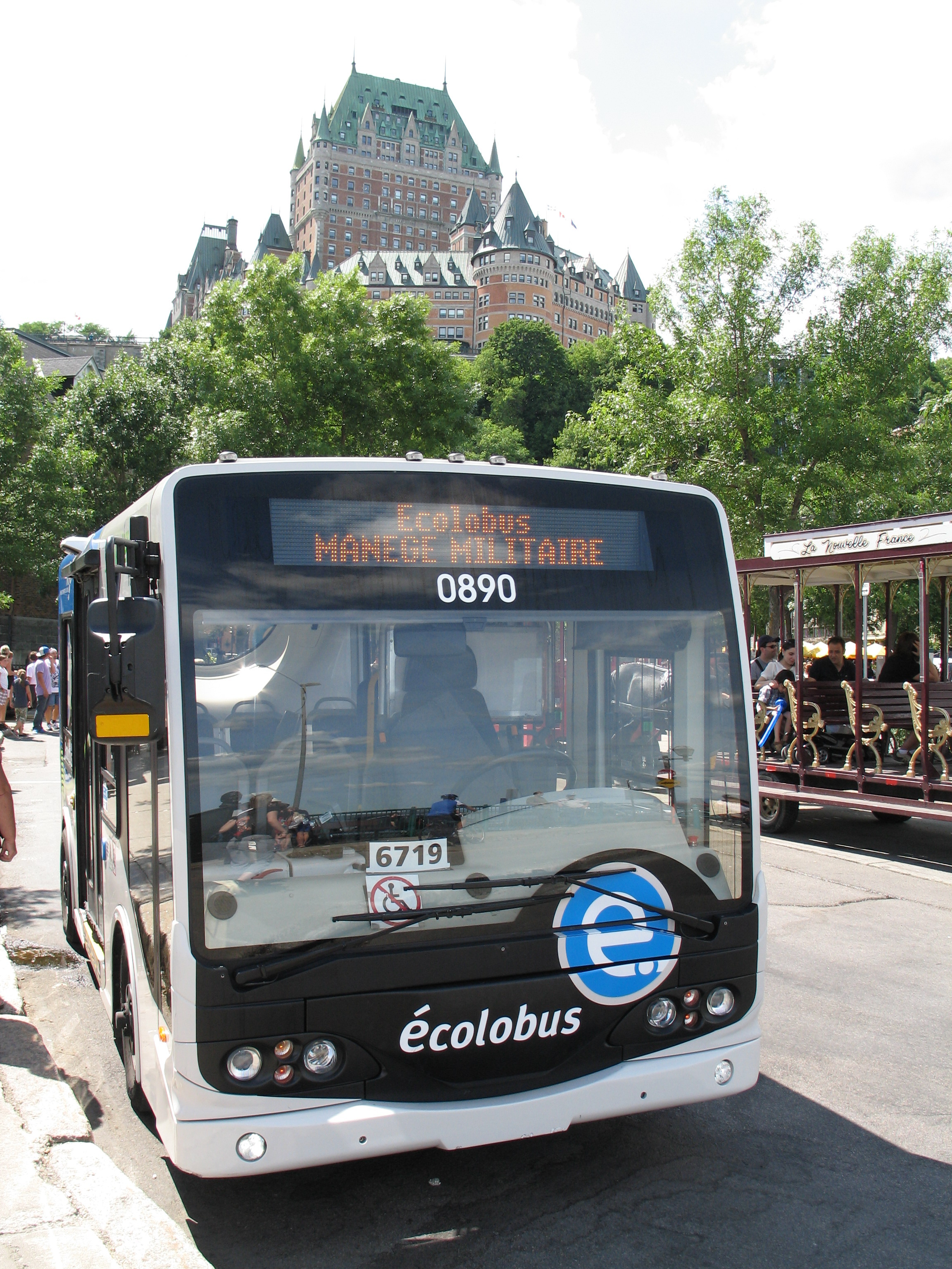 Electrically-powered minibus from the Réseau de transport de la Capitale, at the ferry terminal in Quebec City. In the background, the Château Frontenac.